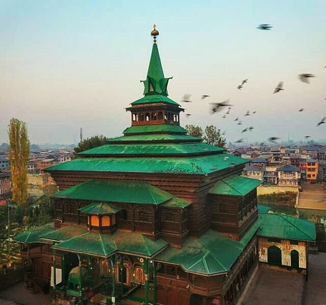 masjid of Islamic Preacher Sayyid Ali Hamadani